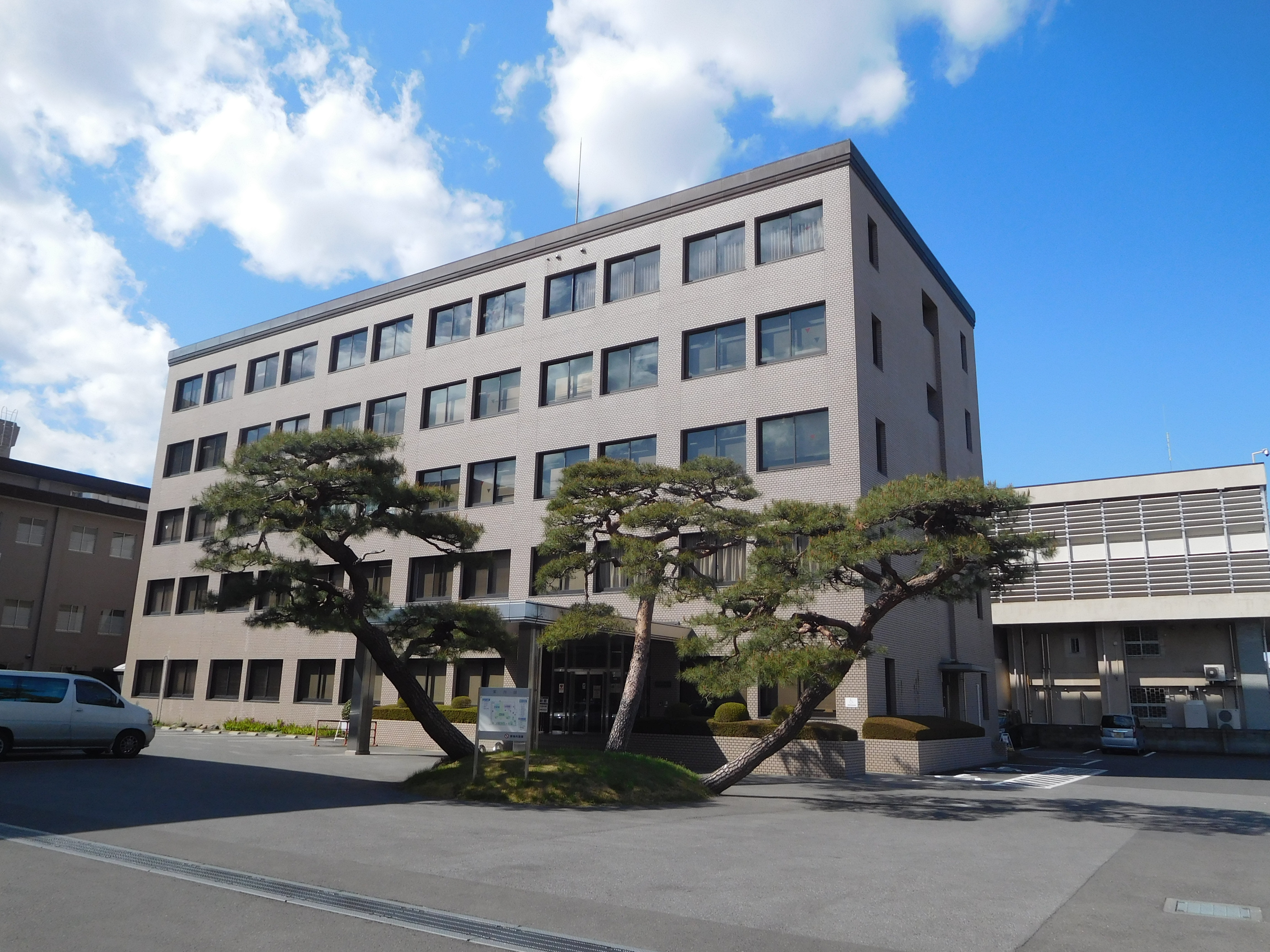 This is Utsunomiya Family Court in Utsunomiya, Tochigi, Japan.